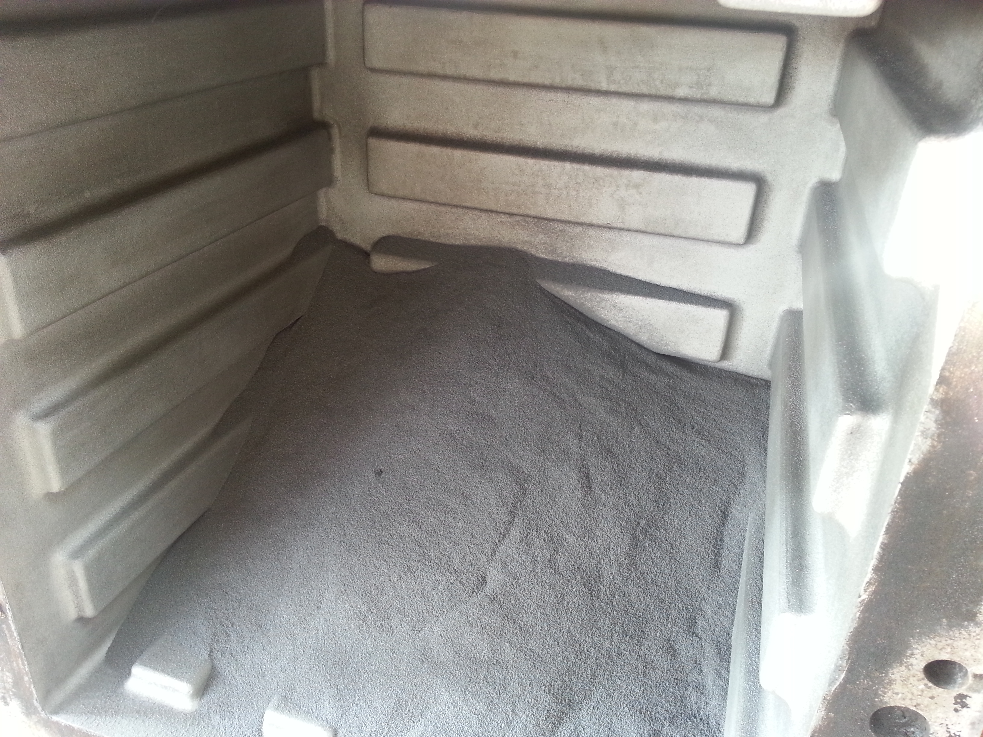 This is a mold made by Roto Dynamics Inc which contains XLPE powder for rotomolding.